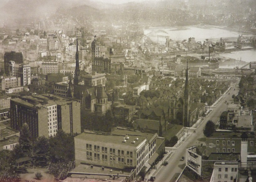 Holy Rosary Cathedral (Vancouver) on the left with the St. Andrew’s Presbyterian Church (first opened May 25, 1890) on the right, at the northeast corner of Georgia and Richards Str., torn down in 1931